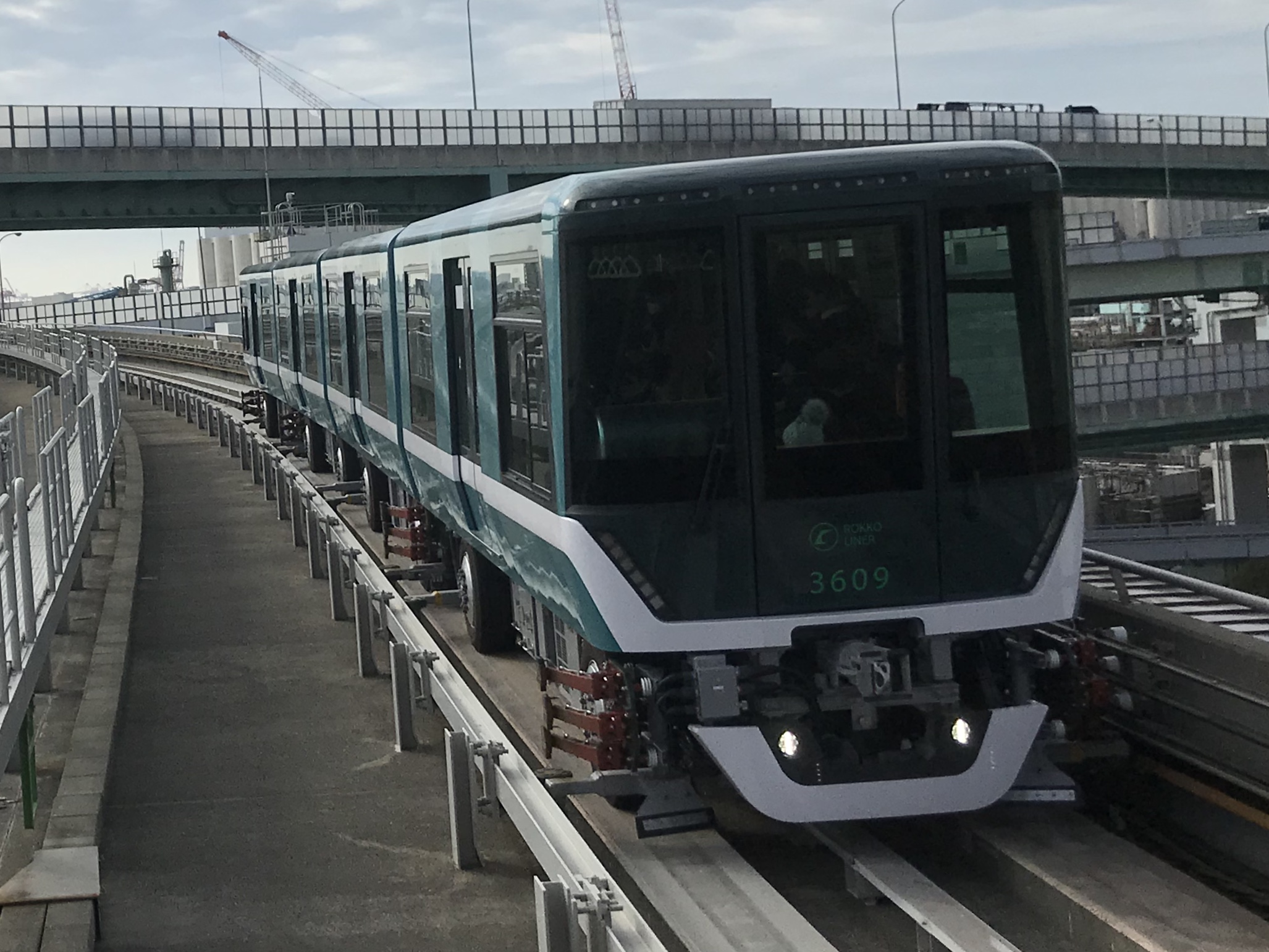 六甲ライナー